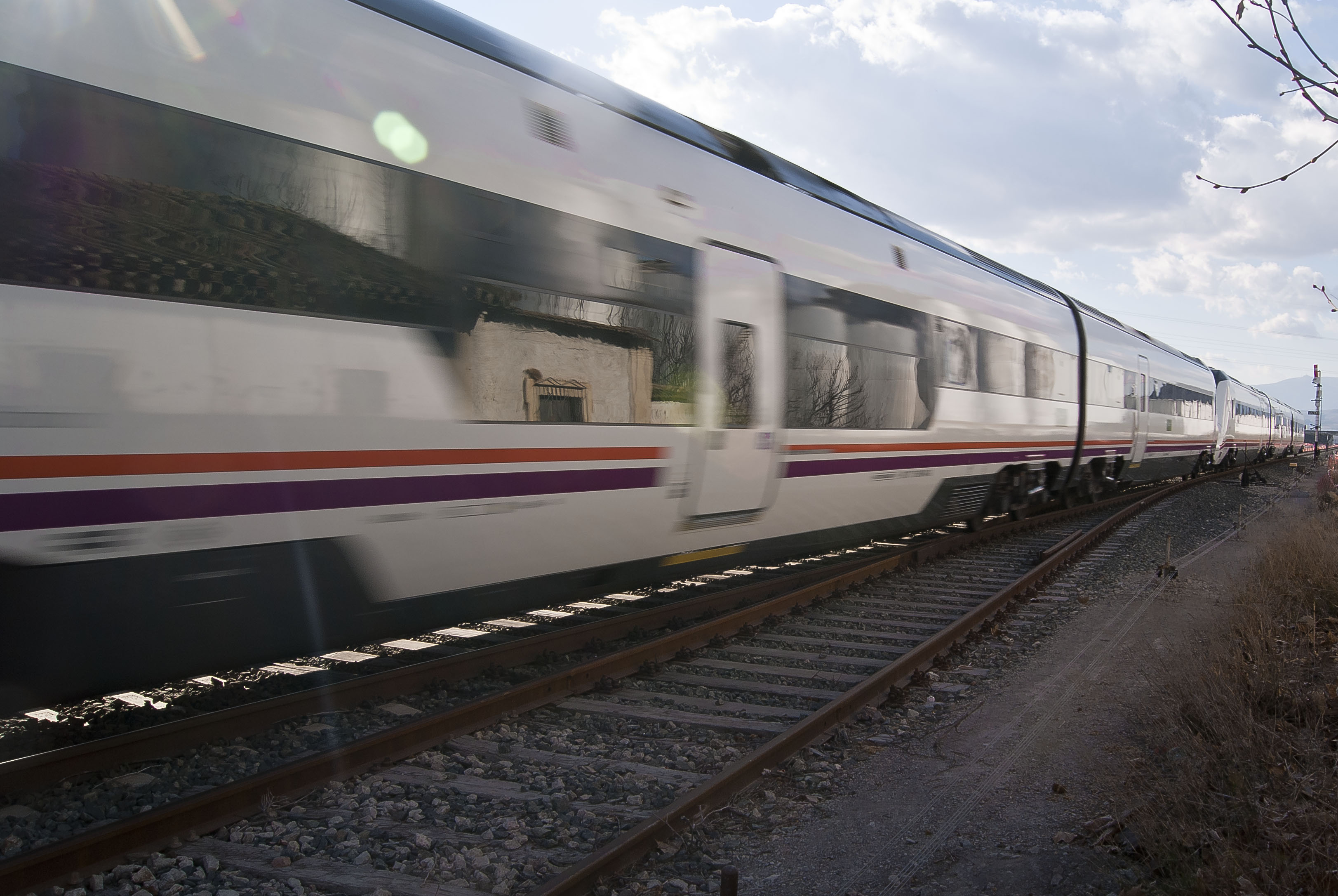 Two Renfe S599 trains coupled in a Media Distancia service between Almería and Sevilla-Santa Justa, just after departing Grenade, passing whithout stop trought Atarfe-Santa Fe station.